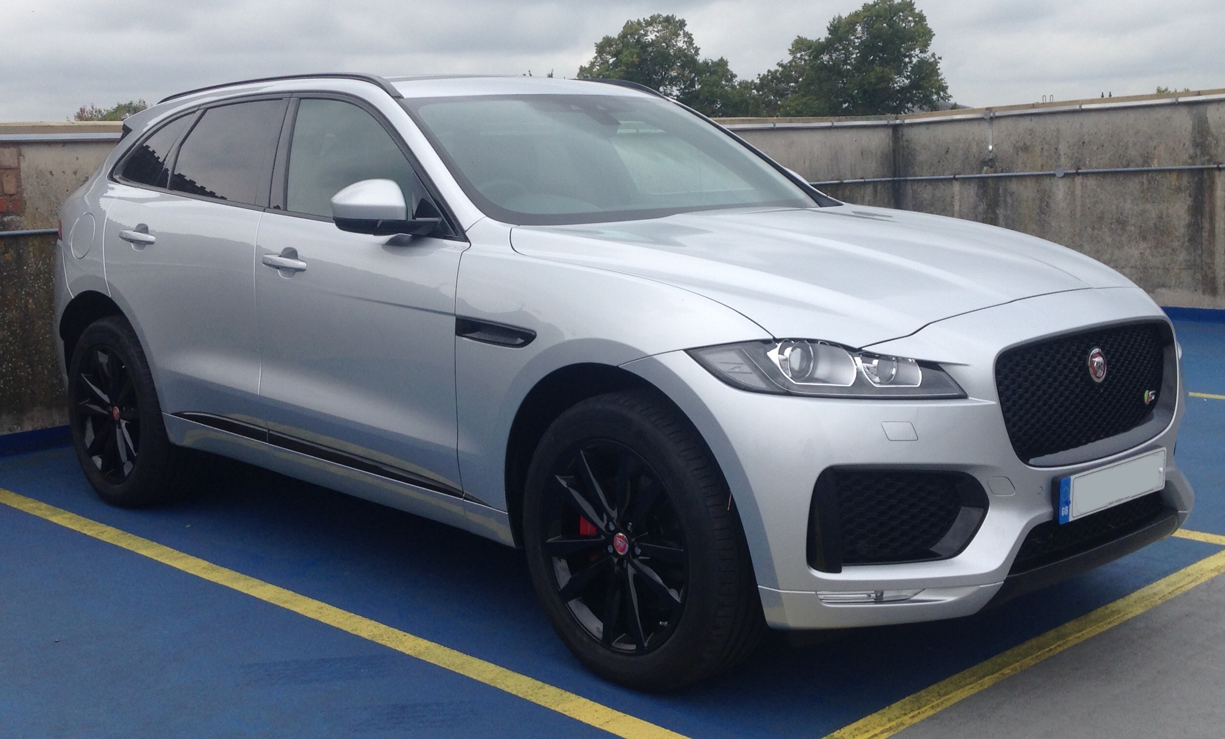 2017 Jaguar F-Pace AWD Automatic 3.0 Taken in Leamington Spa